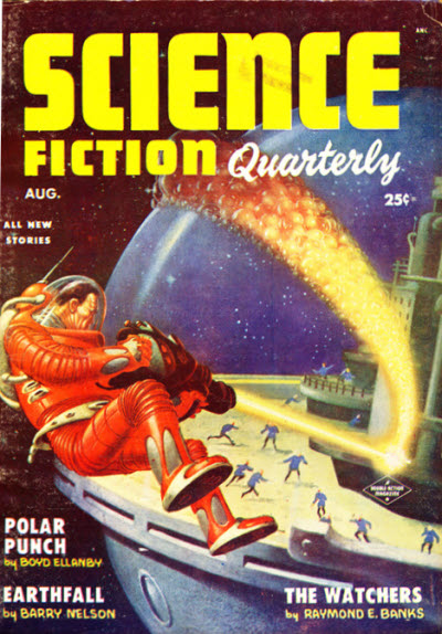 Cover, Science Fiction Quarterly, August 1954